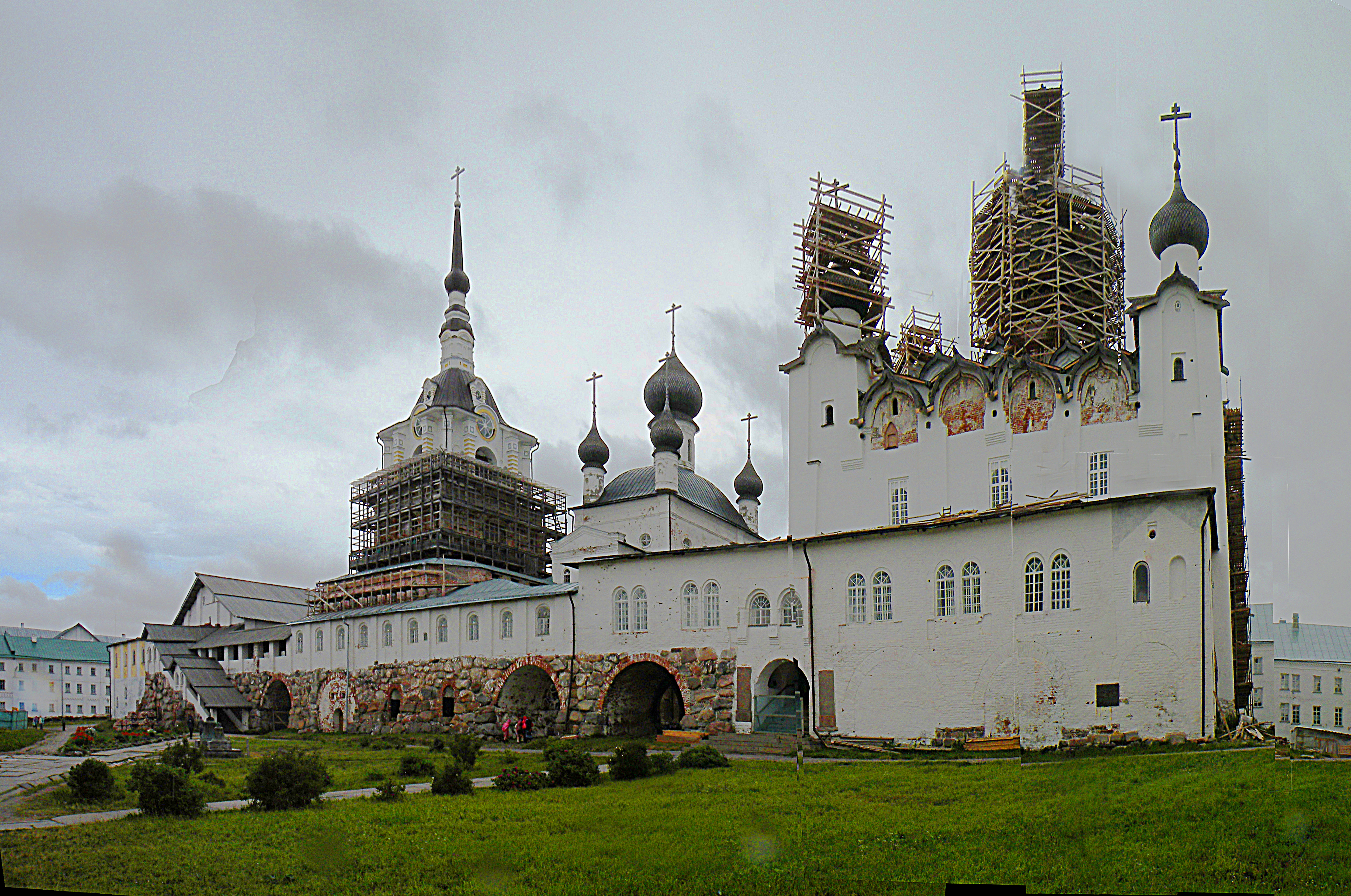 Bell tower, Nikolskaja (St. Nicolas) church and Transfiguration cathedral